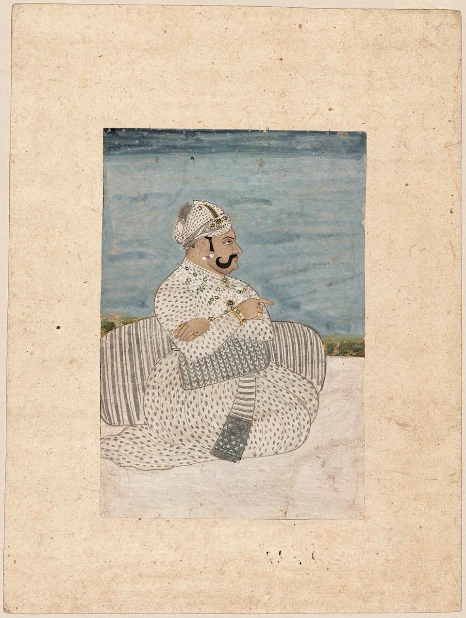 Portrait of Savai Madho Singh of Jaipur Indian, Rajasthani, 18th century Jaipur, Rajasthan, Northern India Dimensions 16.8 x 11.4 cm (6 5/8 x 4 1/2 in.) Medium or Technique Opaque watercolor, silver and gold on paper